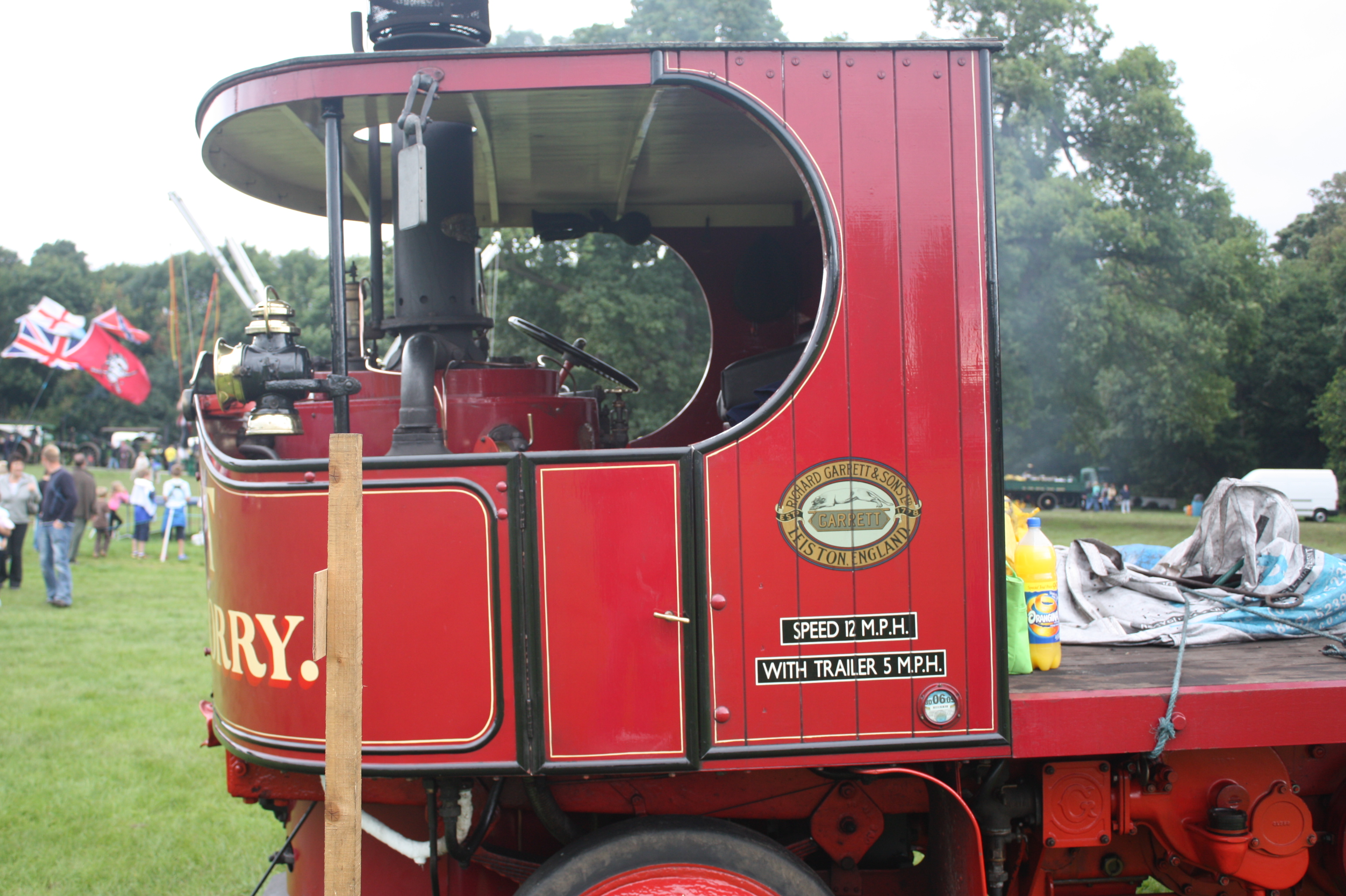 The Garrett Steam Wagon